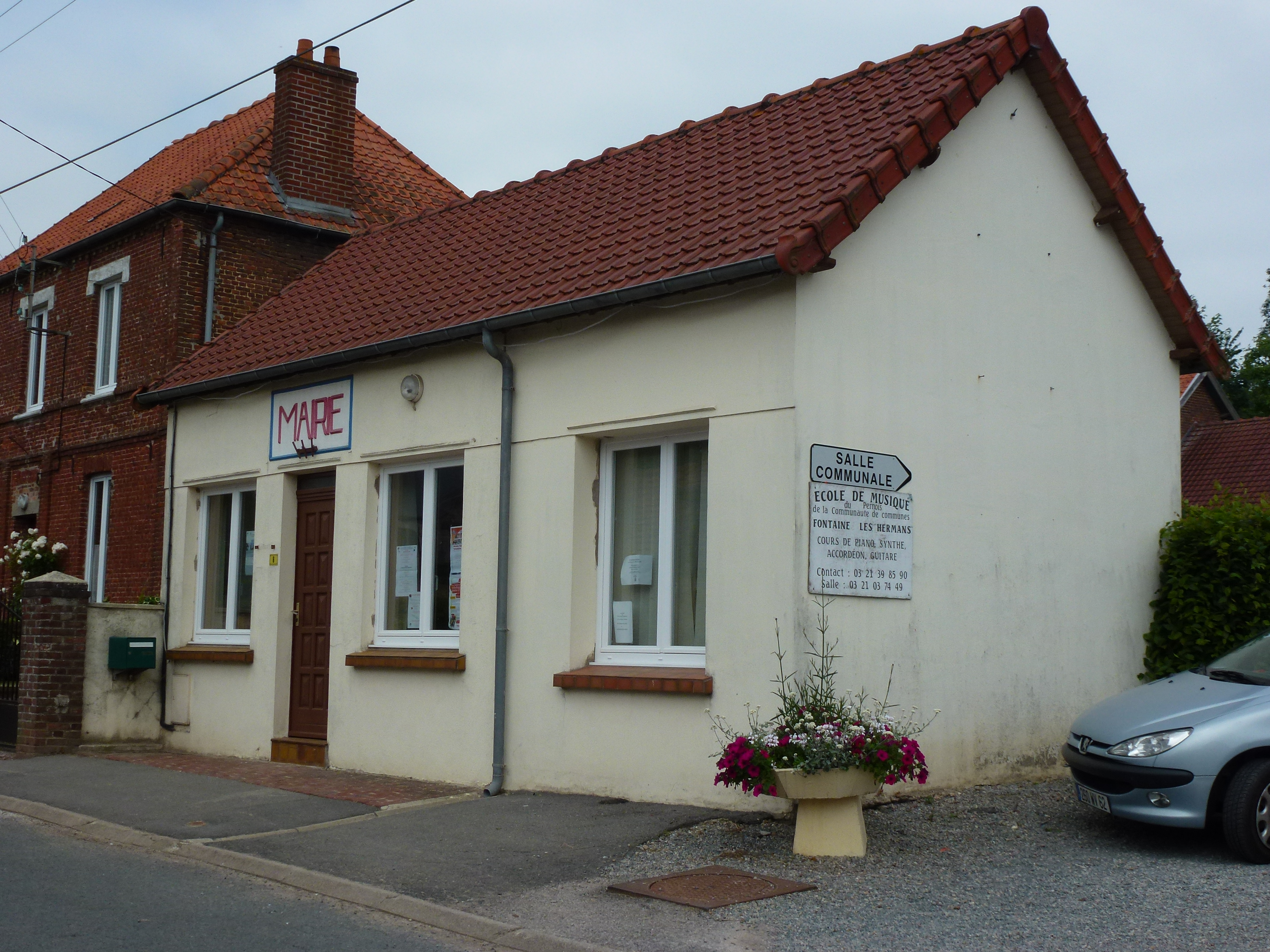 Fontaine-lès-Hermans (Pas-de-Calais, Fr) mairie